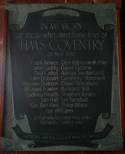 Holy Trinity Church, Coventry, Memorial to those killed in the sinking of HMS Coventry (D118) in the Falklands War 1982